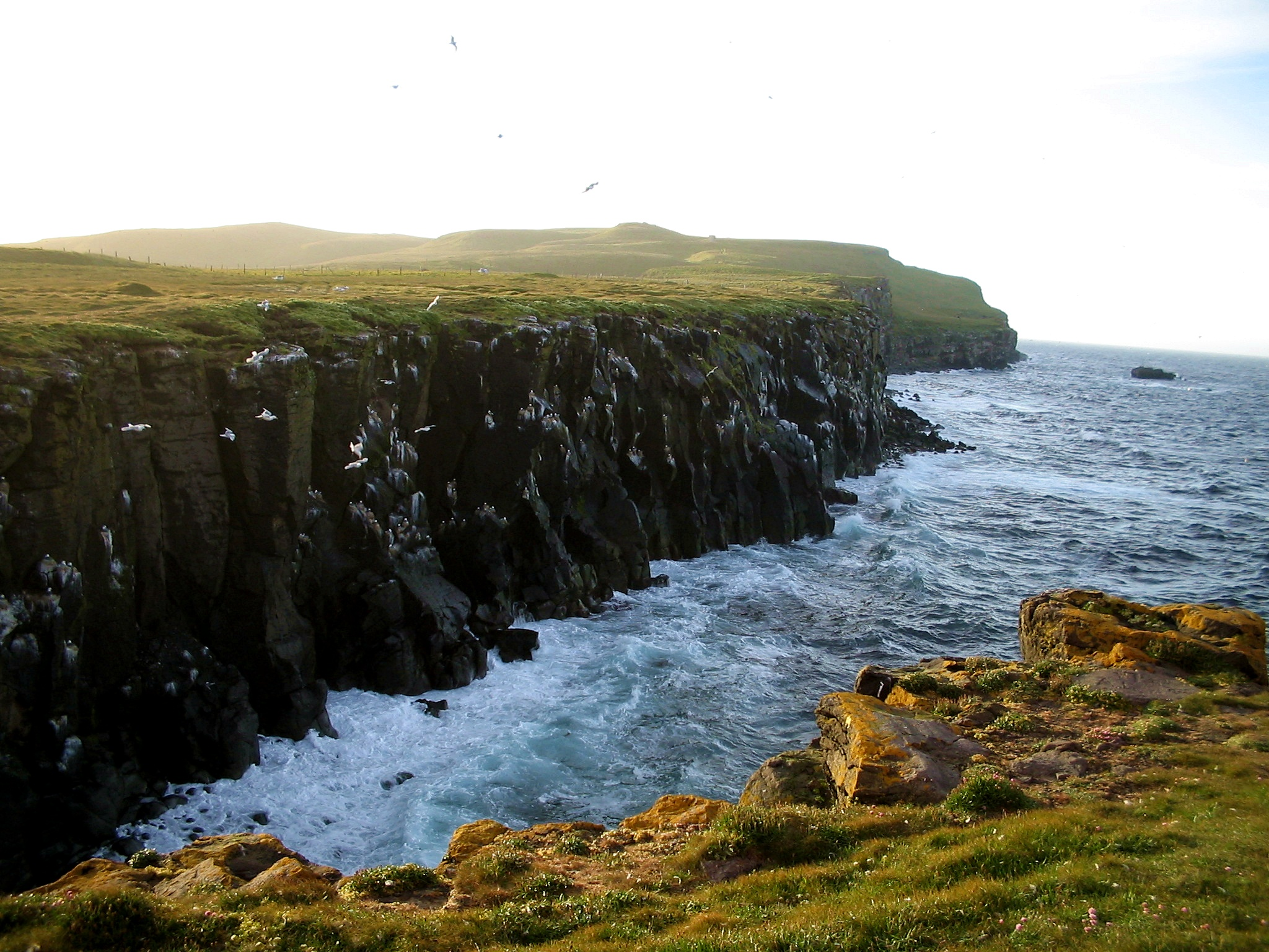 Cliffs at the island of Grímsey, on the Arctic Circle.